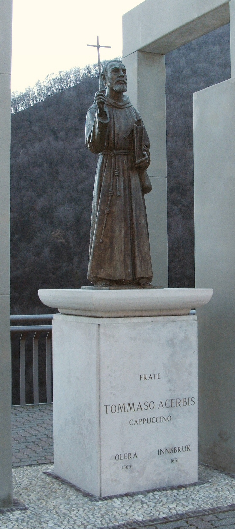 Olera, Alzano Lombardo, Bergamo, Italy - statue of Tommaso Acerbis